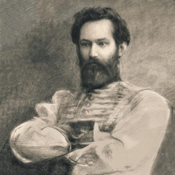 Portrait of Argentine hero of the Independence War, Martín M. de Güemes (1785–1821).